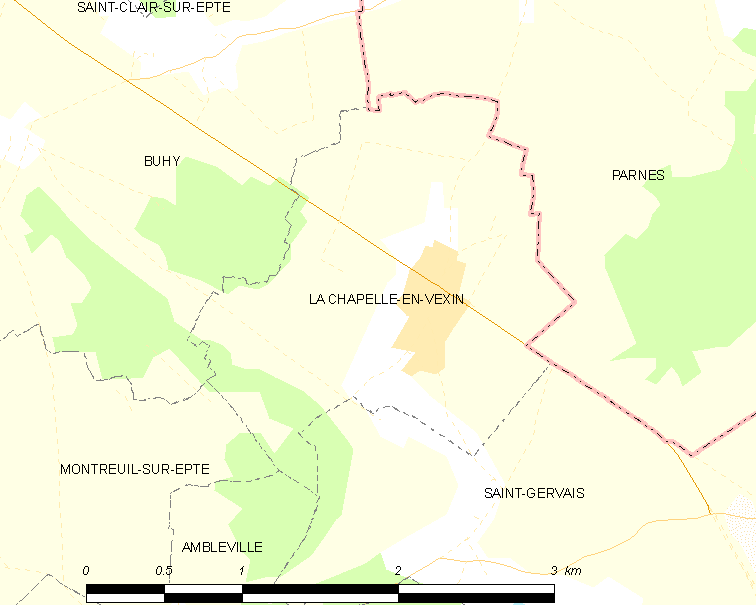 Map of French municipality La Chapelle-en-Vexin